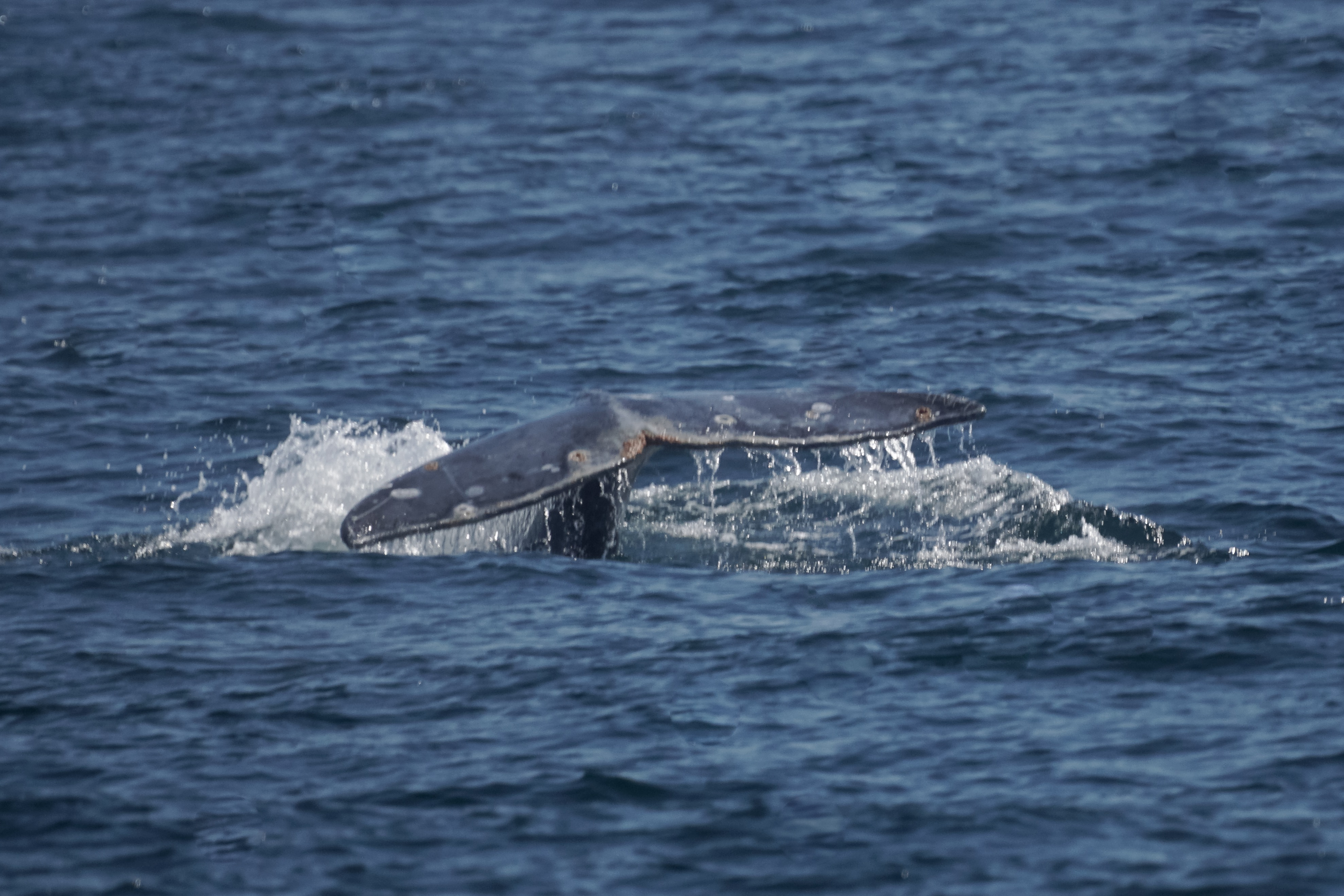 Whale Tail